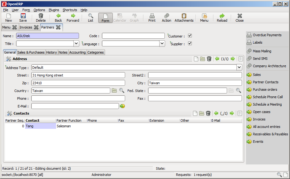 A screenshot of the GTK client of OpenERP 5.0.6 under Windows with the Clearlooks compact theme.